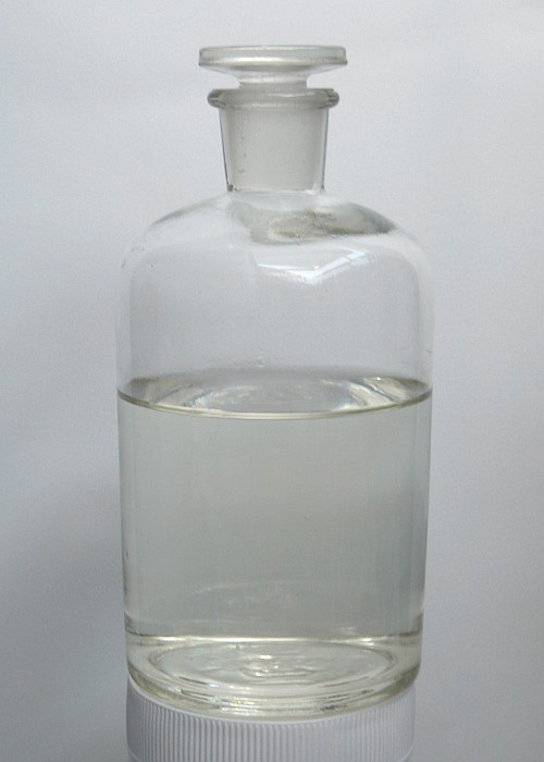 Nitric acid 70% in an all glass bottle with ground stopper